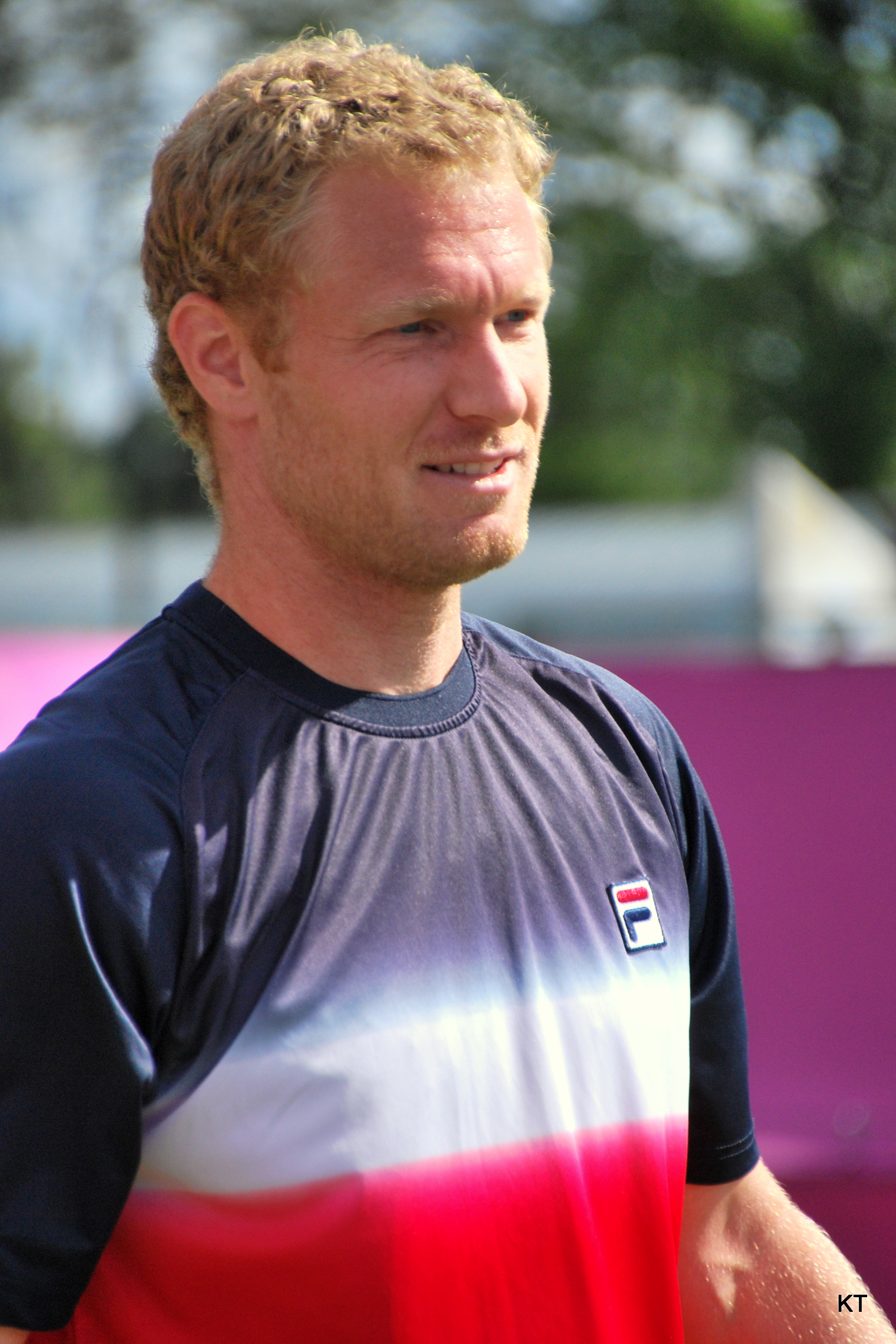 At the London 2012 Summer Olympic Games